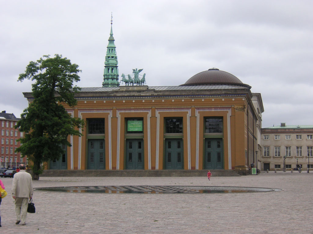 The Thorvaldsens Museum in Copenhagen, Denmark, with Saint-Nicholas church tower (Kunstahallen Nikolaj) in the background.